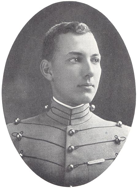 Image is Official West Point Graduation picture of Luis R. Esteves taken in 1915